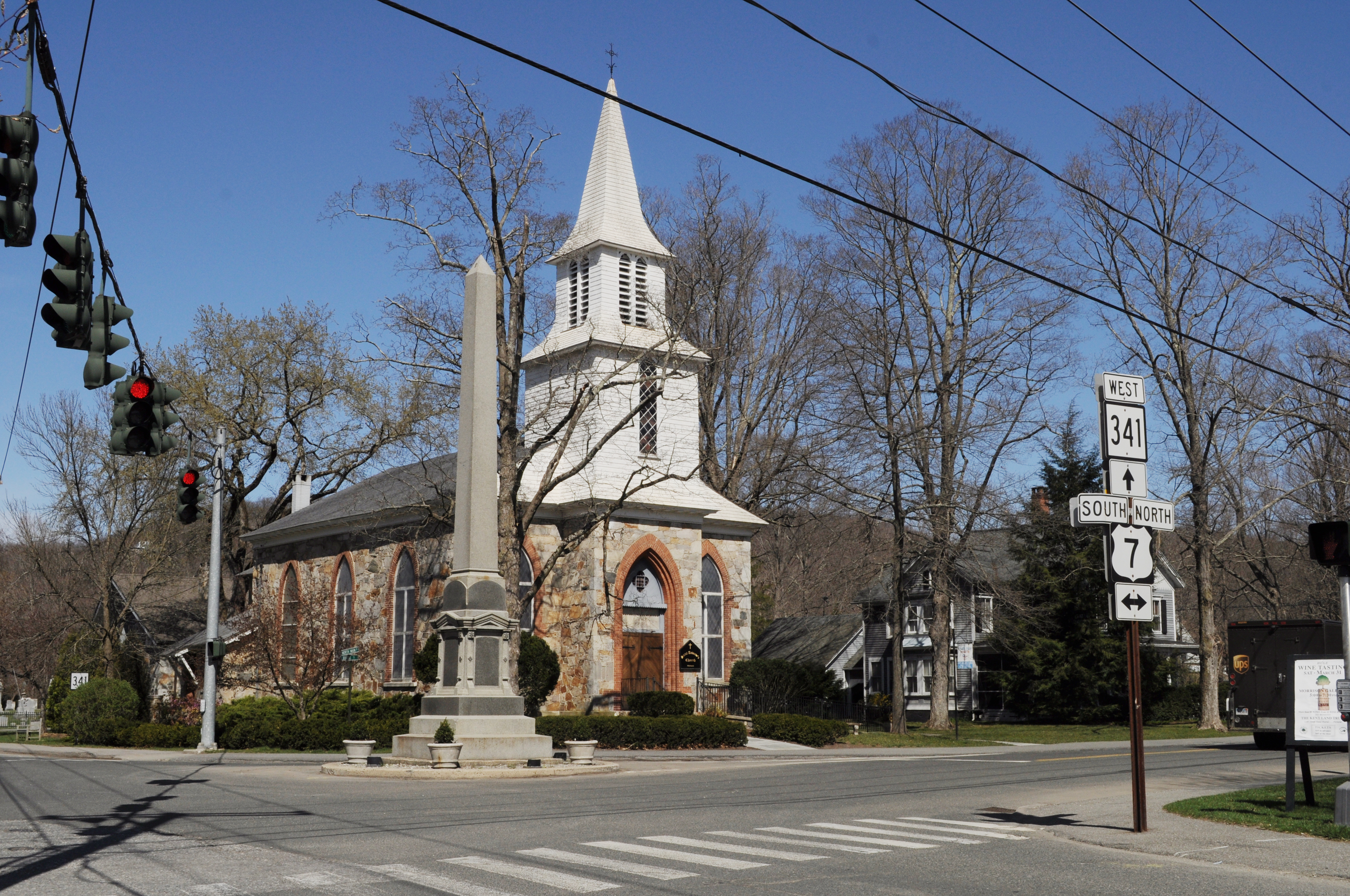 Civil War Soldiers Monument and St. Andrew's Church, Kent, Connecticut